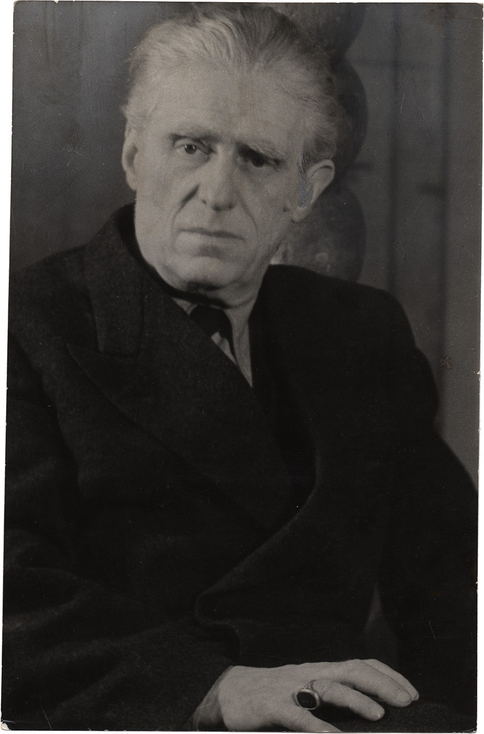 Portrait of Gian Francesco Malipiero, composer (1882-1973). Photo by Interfoto, before 1973.